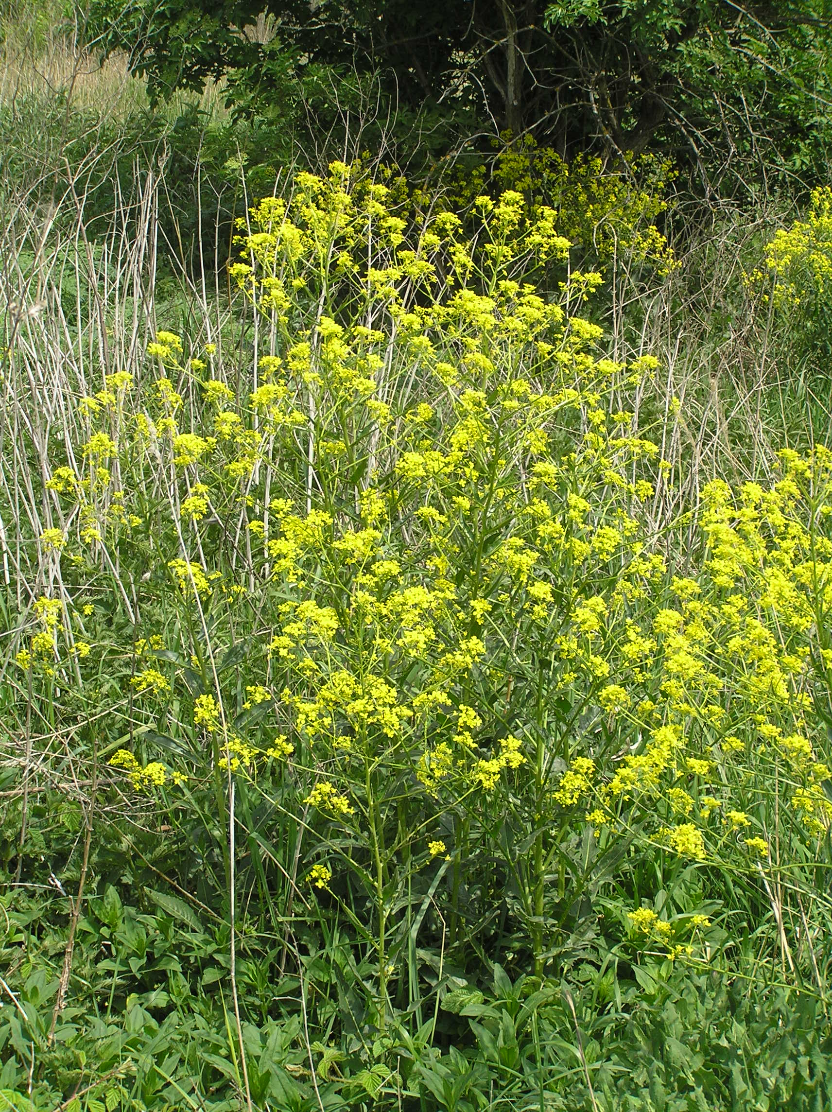 Bunias orientalis, Poudřany, Southern Moravia, Czech Republic